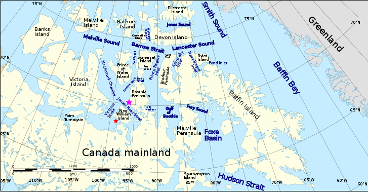 Canadian Arctic Archipelago, annotated primarily for Northwest Passage application